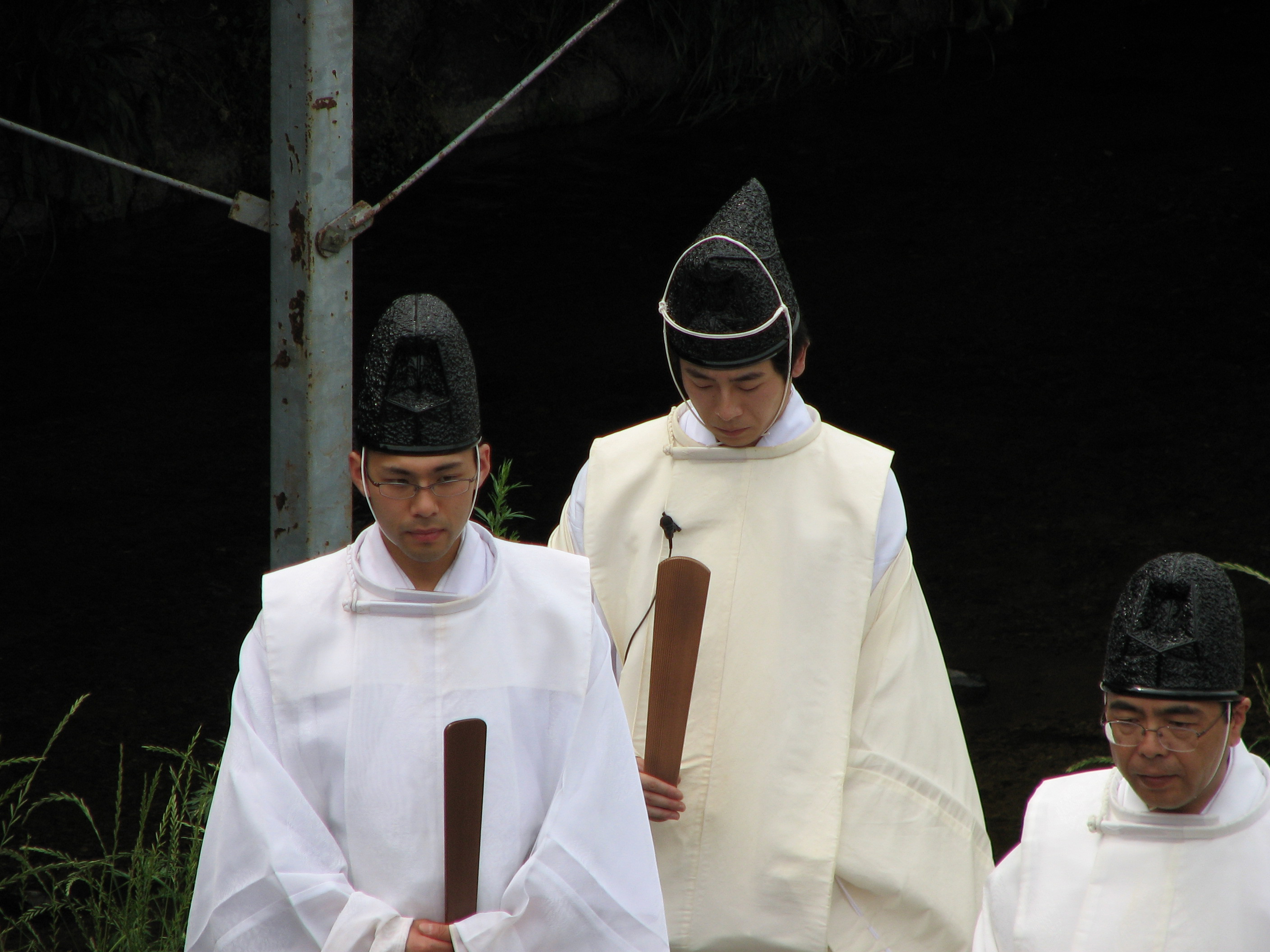 Shinto ceremony near the Kamo River